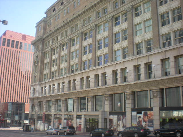 J.L. Brandeis and Sons Store Building 2010